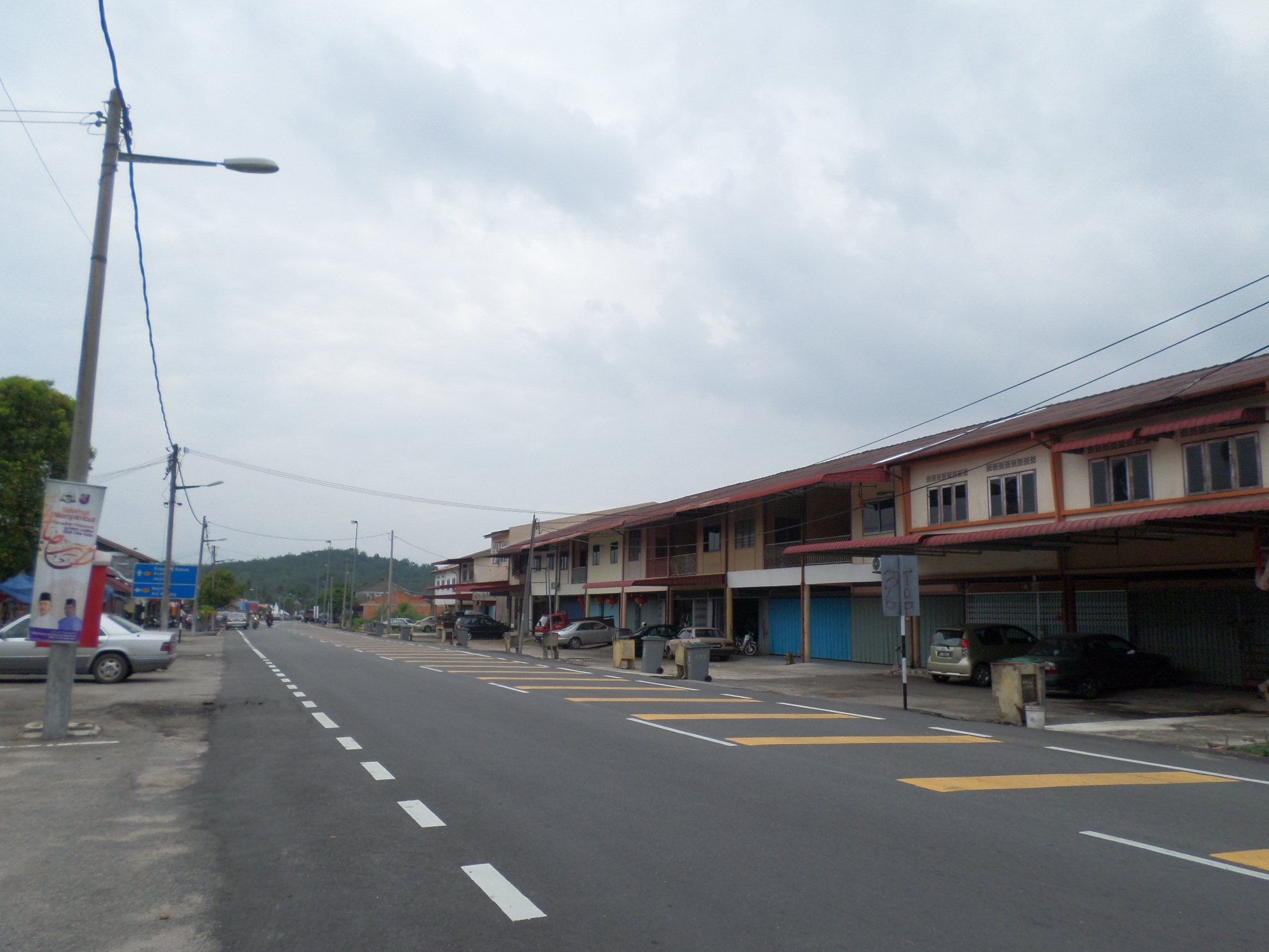 Nyalas, Jasin, Melaka, MalaysiaBahasa Melayu: Nyalas, Jasin, Melaka, Malaysia